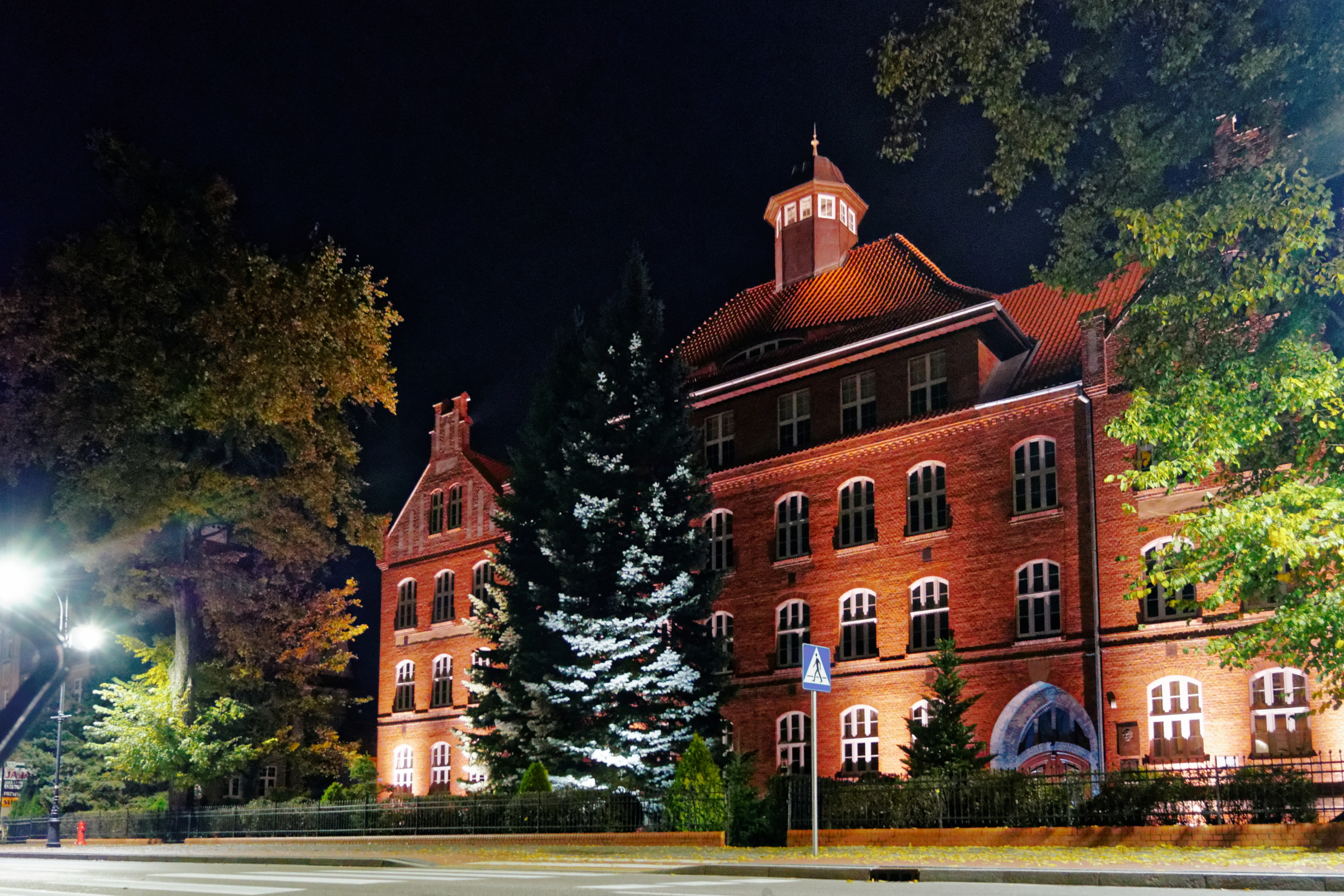 Ełk - the building of a high school - Piłsudski St. - October 2016